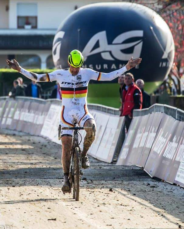 Jens Schwedler finishing in Silvelle.